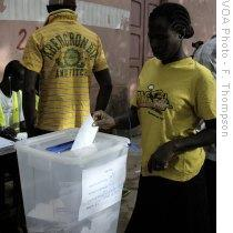 Voters in Guinea-Bissau cast their ballots in presidential elections, 28 Jun 2009